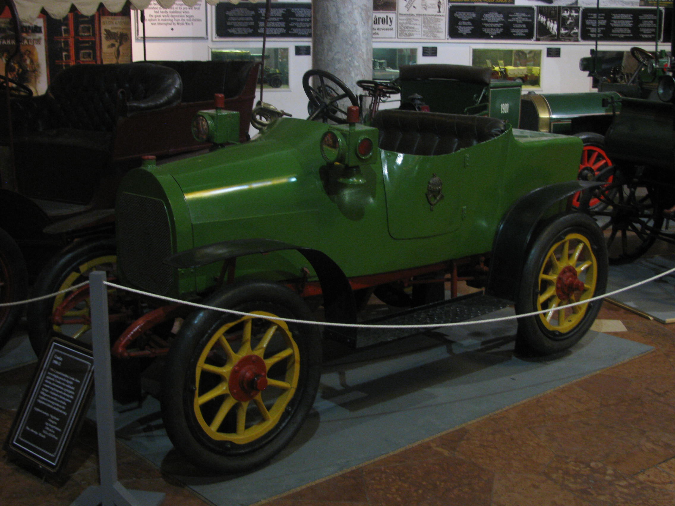 A Csonka model that was produced between 1908–1912. Made for Magyar Posta (Hungarian Post). The four-stroke, 1100 ccm four-cylinder engine block was casted in one piece. The maximum output is 5.9 kW (8 hp) and the top speed is 50 km/h.